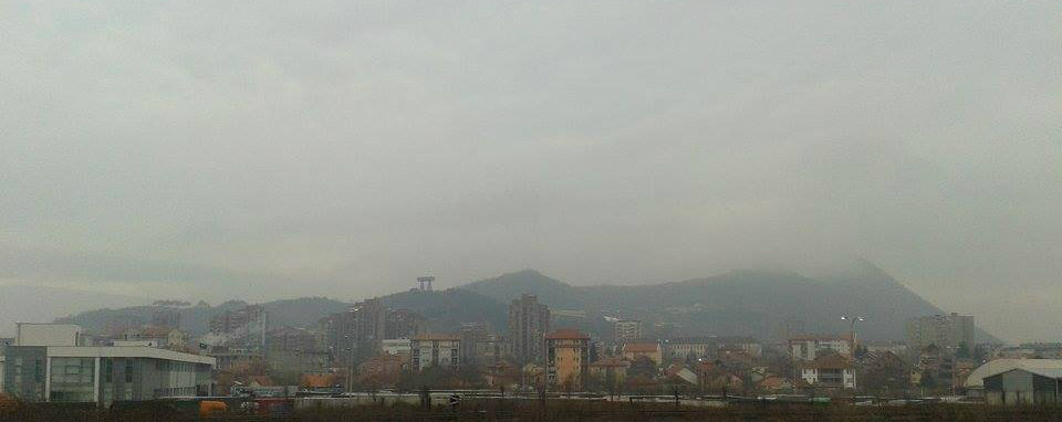 North Mitrovica